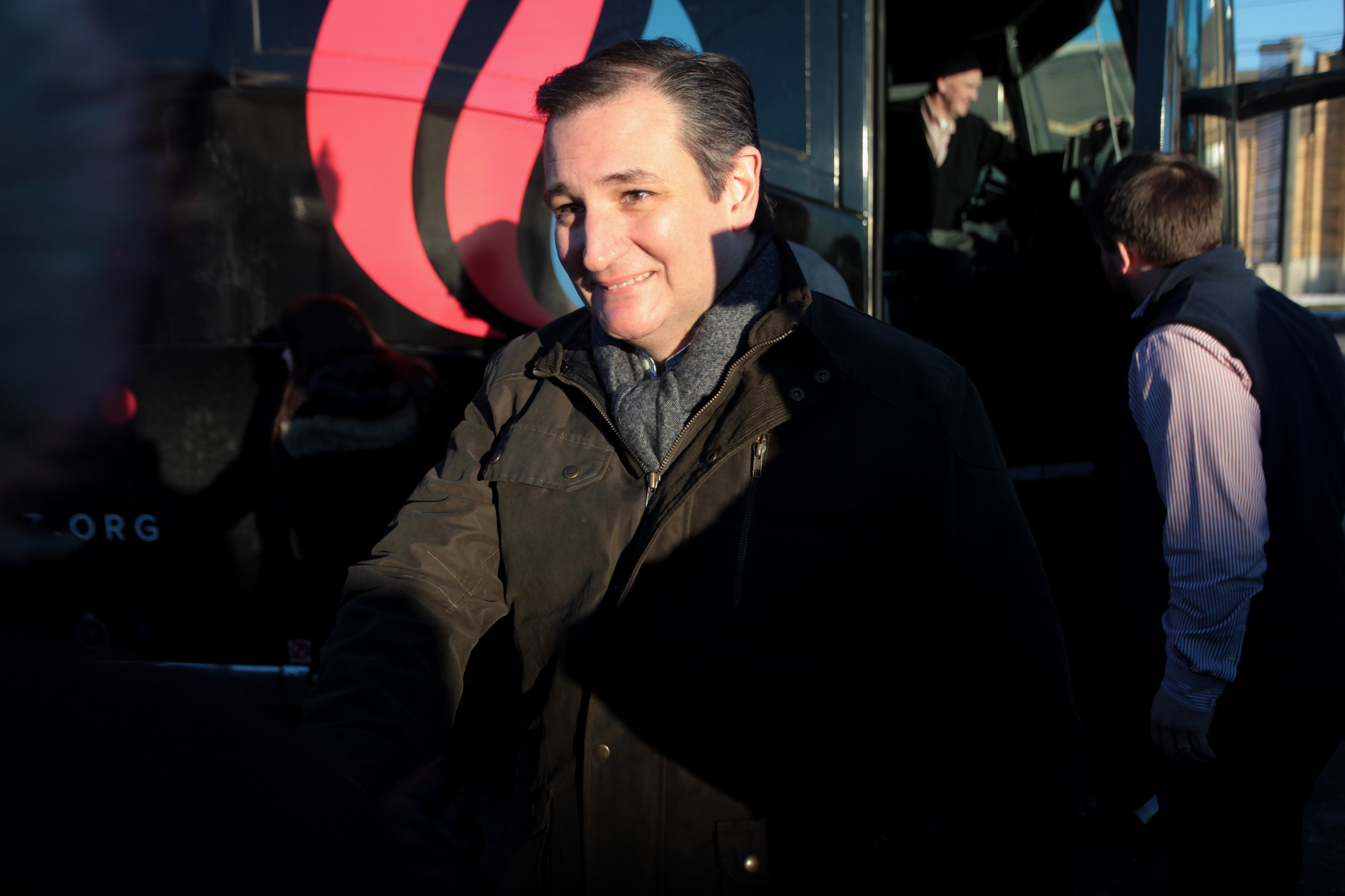 Ted Cruz speaking at an event in Manchester, New Hampshire.